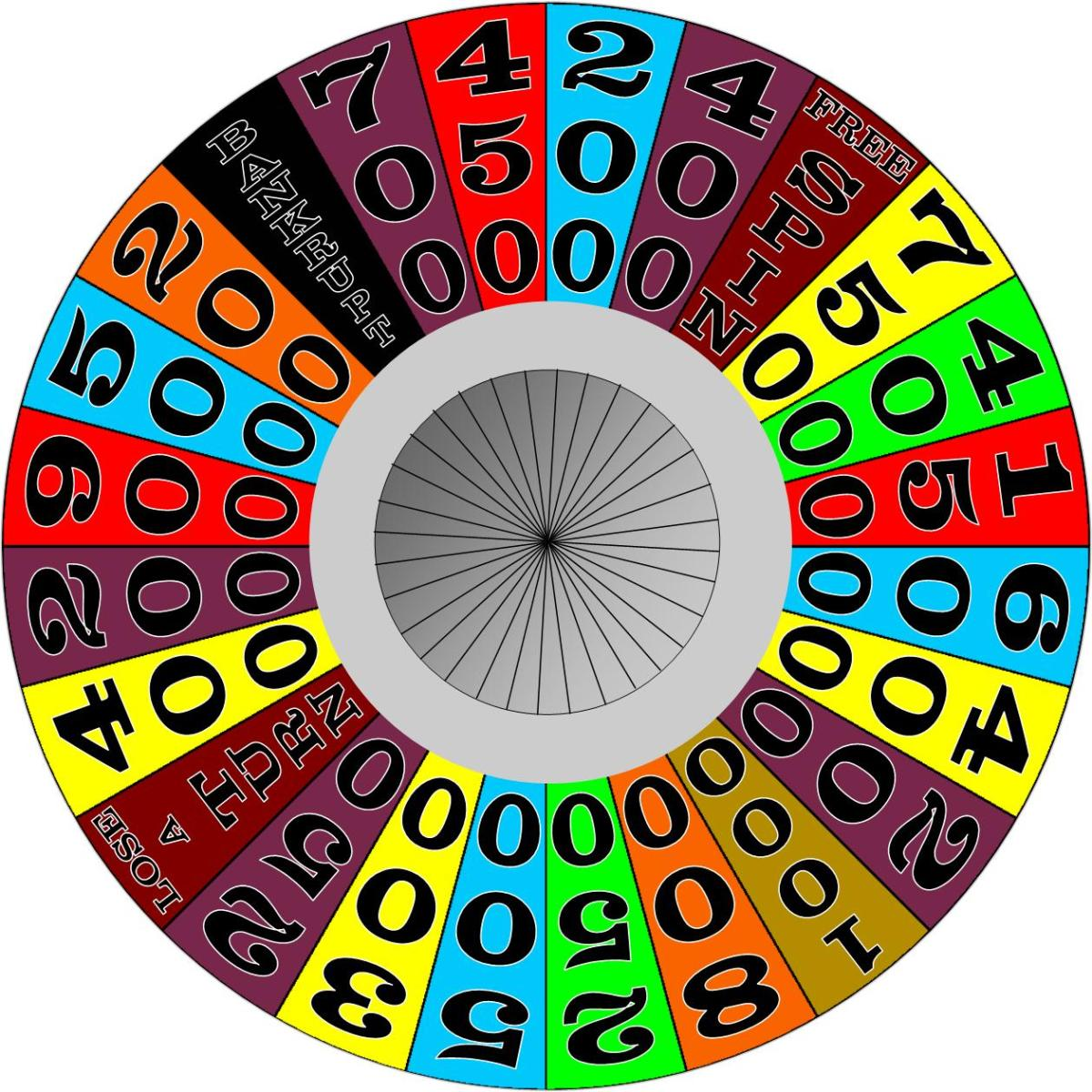 The 1992 round one layout of the British version of "Wheel of Fortune."